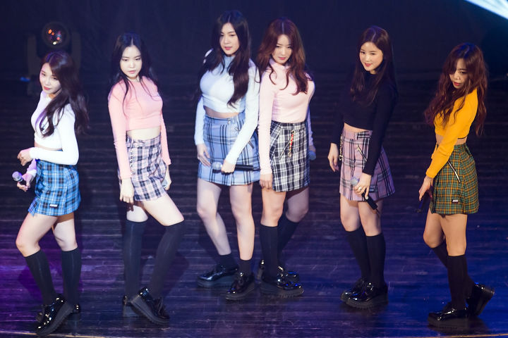 Apink at 50th Anniversary Jeolla High School Performance on March 24, 2018